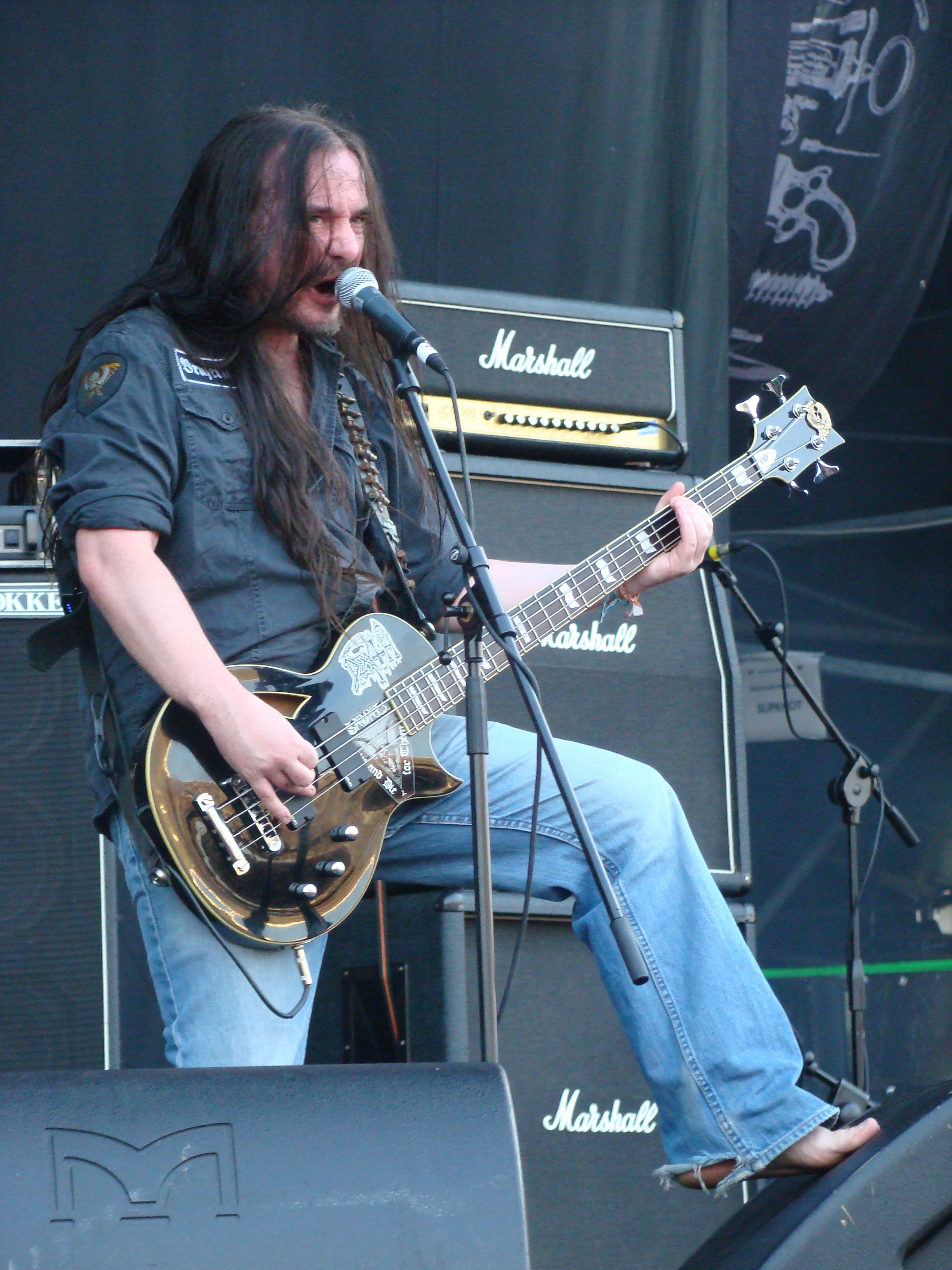 Bill Steer, of british band Carcass, performing live at Gods of Metal 2009.